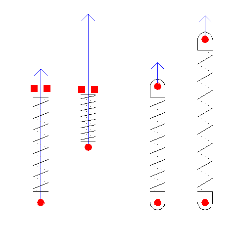 Pressure and expansion springs